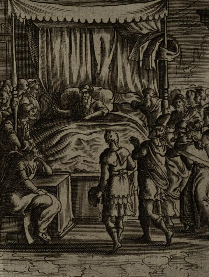 Jacob Blesses His Sons, engraving published in "La Saincte Bible, Contenant le Vieil and la Nouveau Testament, Enrichie de plusieurs belles figures/Sacra Biblia, nouo et vetere testamento constantia eximiis que sculpturis et imaginibus illustrata, De Limprimerie de Gerard Jollain"